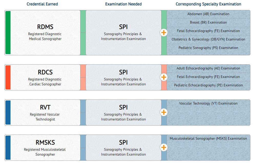 Applicants may apply and take the SPI examination and the specialty examination in any order.